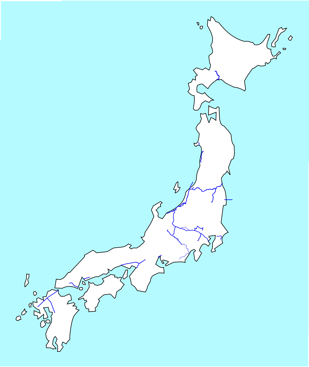 Natural gas pipelines in Japan